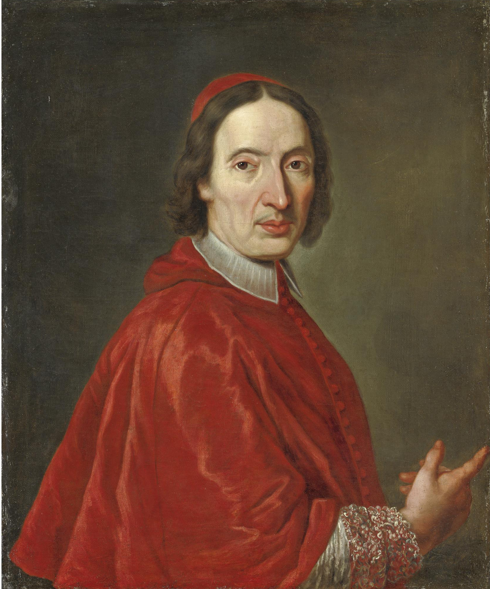 Portrait of Lodovico Pico della Mirandola (1668-1743)